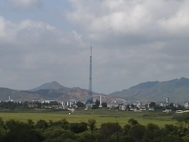 View on Kijong-dong village in the Demilitarized zone in Northern Korea